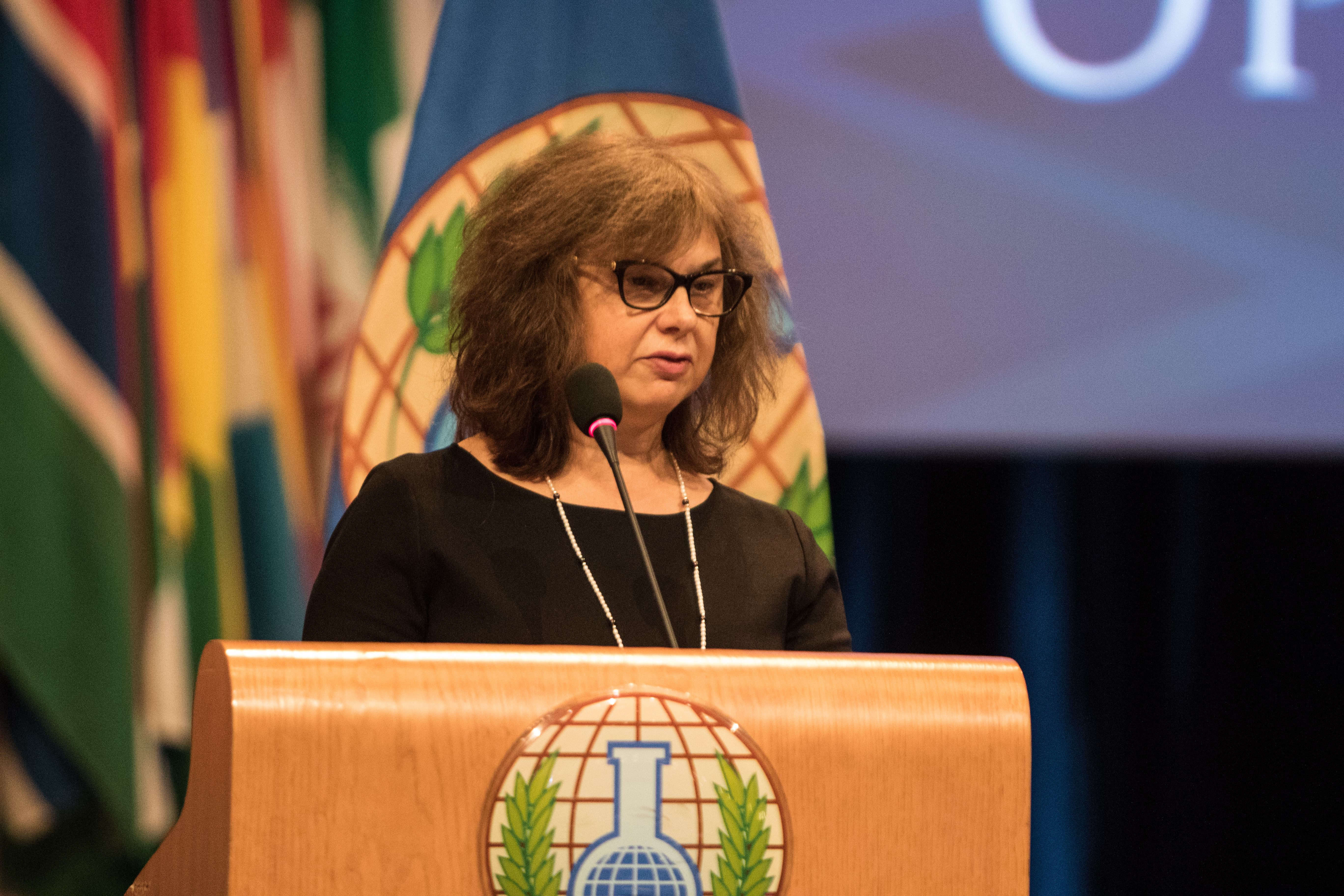 Ms. Raimonda Murmokaite, Director General for Transatlantic Cooperation and Security Policy, Ministry of Foreign Affairs of Lithuania, speaking at OPCW's Fourth Review Conference. The Conference is held at the World Forum, The Hague, the Netherlands, from 21-30 November 2018.